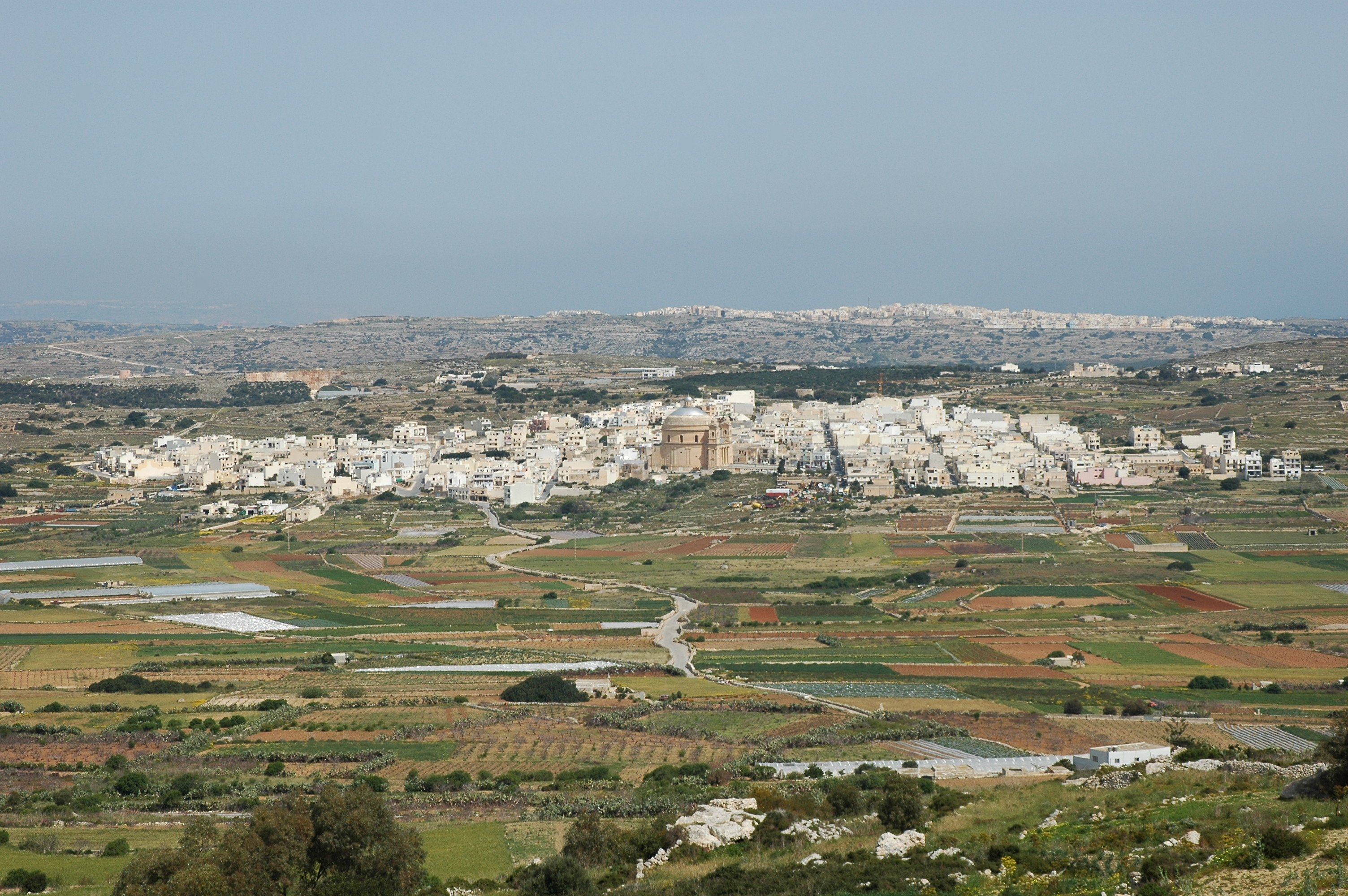 The town Mġarr on Malta as viewed from the south.